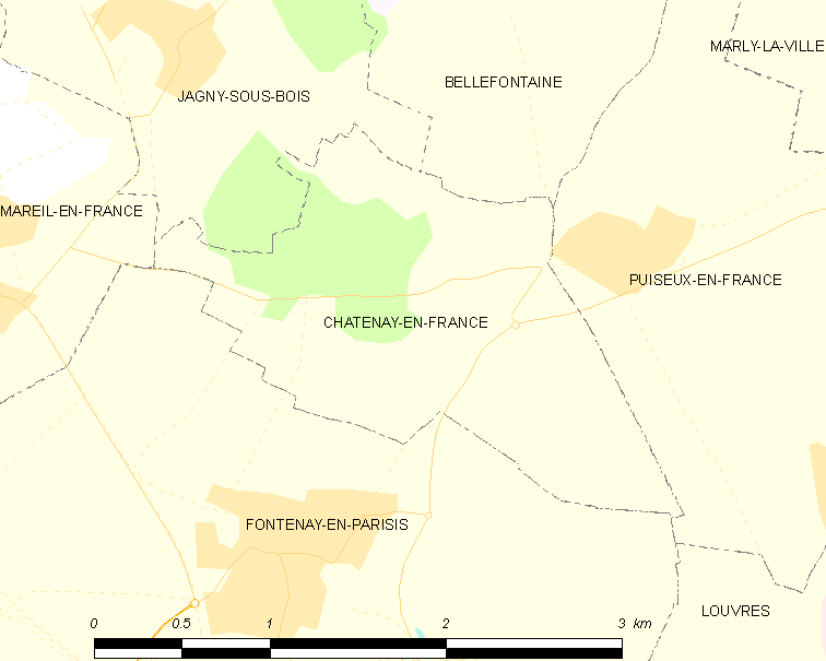 Map of French municipality Châtenay-en-France